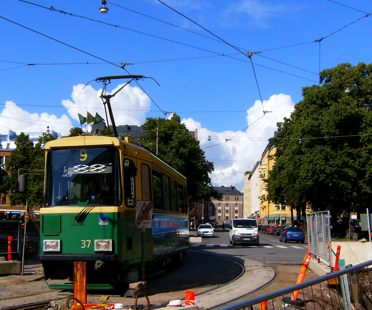 Tram 9 turning from Viides linja to Porthaninkatu in Kallio, Helsinki, Finland